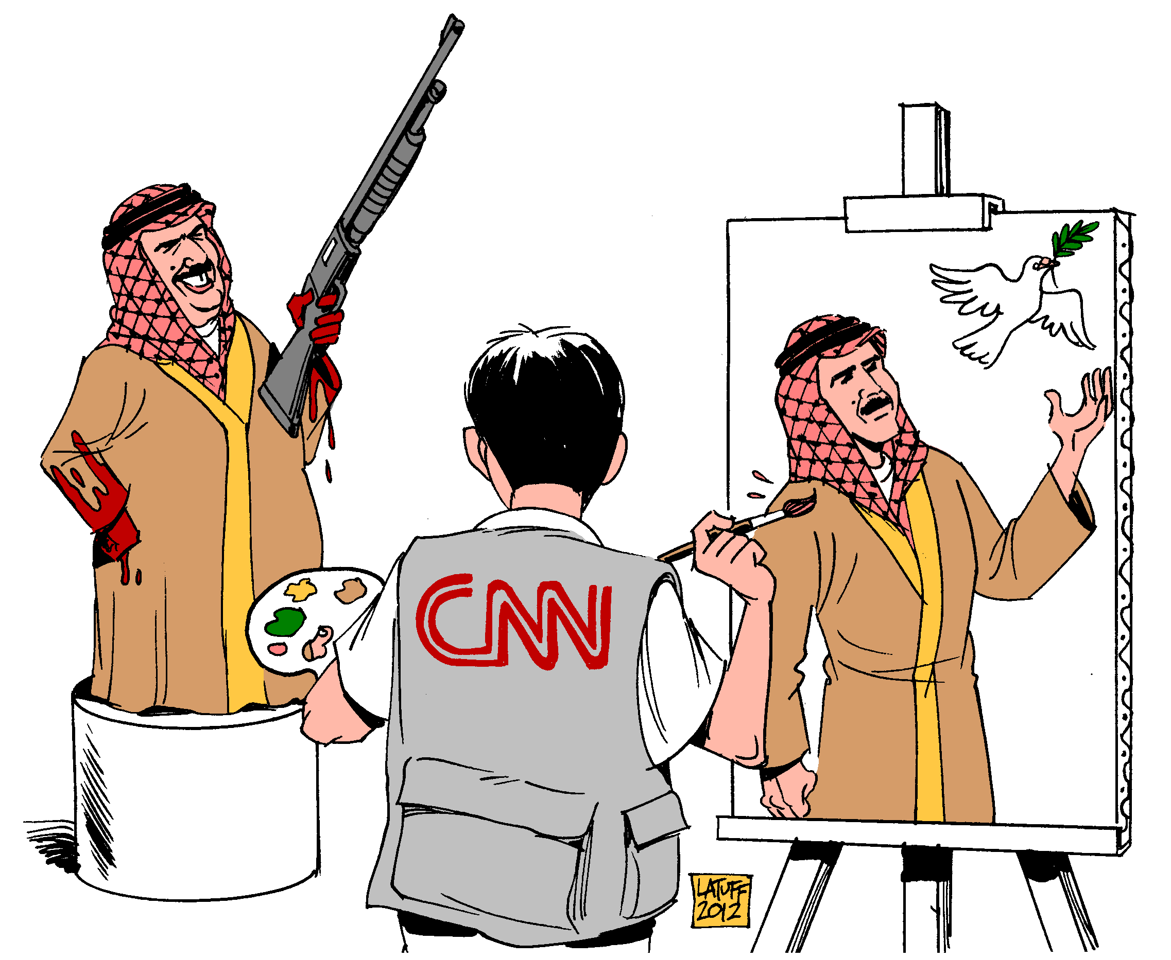 A political cartoon titled "Cnn whitewashing Bahrain dictatorship"